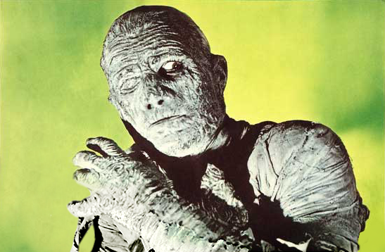 Cropped and edited lobby card for the 1944 film The Mummy's Ghost, featuring Lon Chaney Jr. This image is assumed to be in the public domain, as no copyright notice is in evidence.